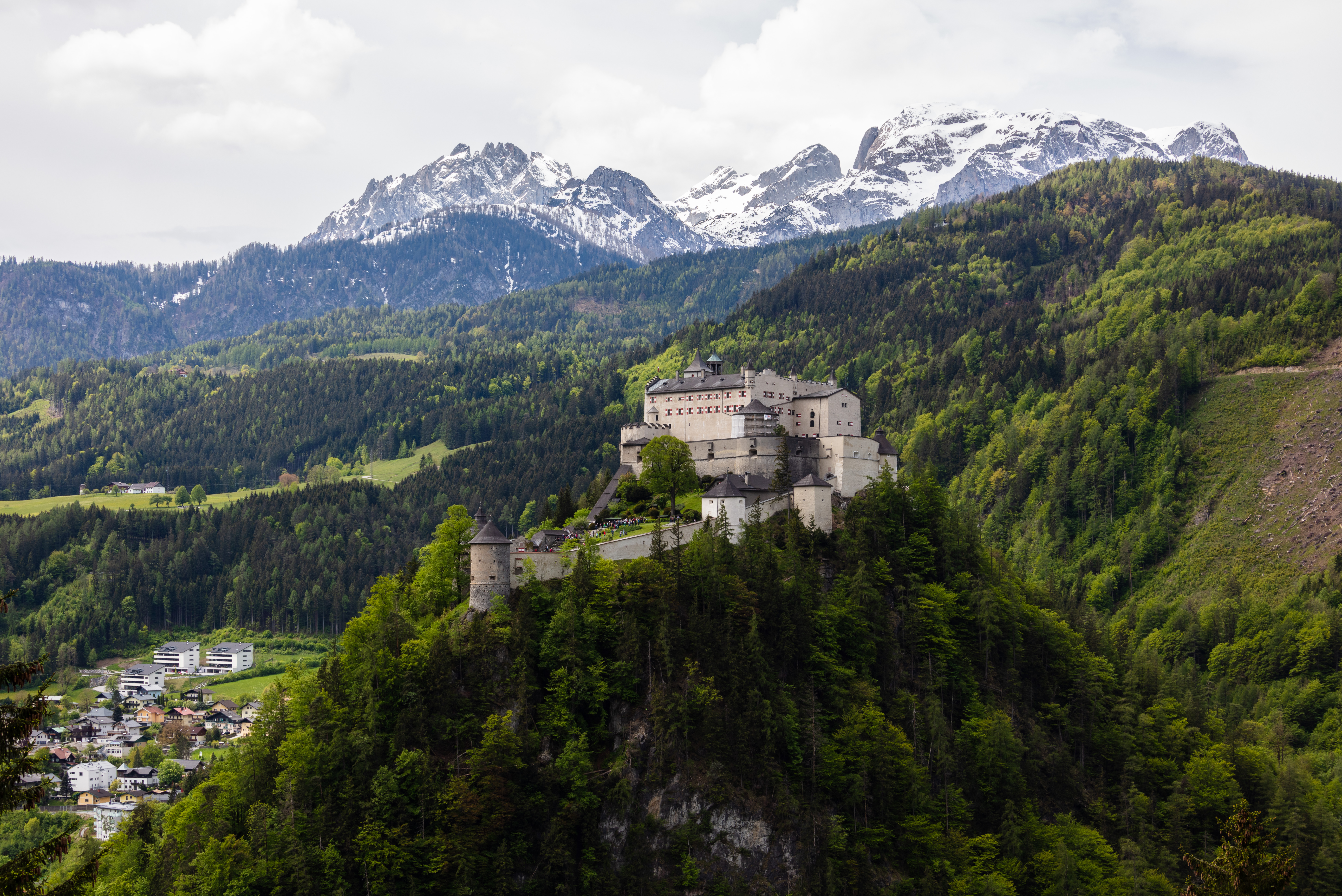 Castle Hohenwerfen, Werfen, Austria